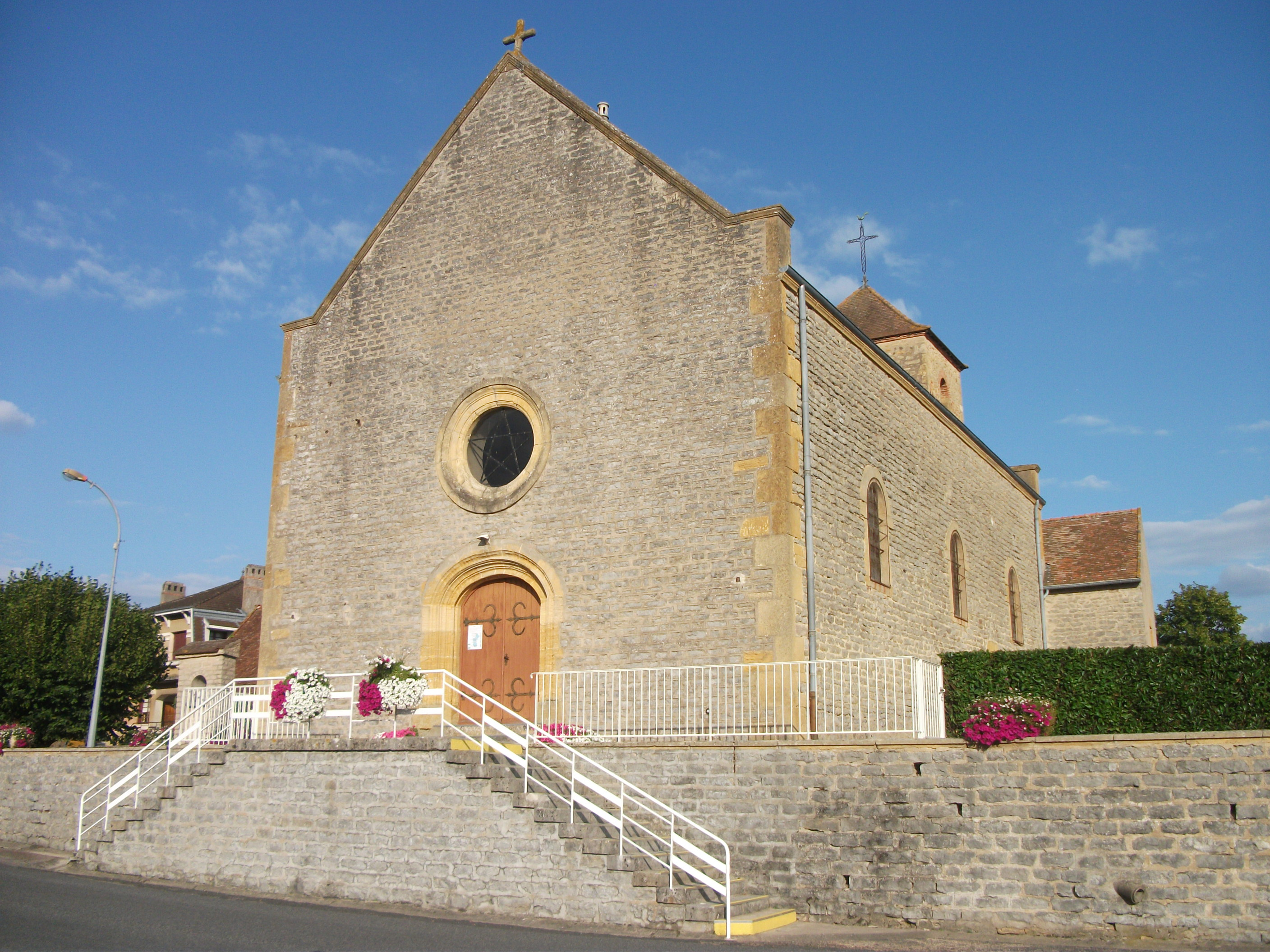 Church of Luneau, Allier, Auvergne-Rhône-Alpes, France. [16898]